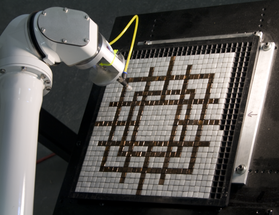 Tile mosaic fabrication robot from Artaic. Custom mosaic of any size is fabricated in square-foot sections by the robot.